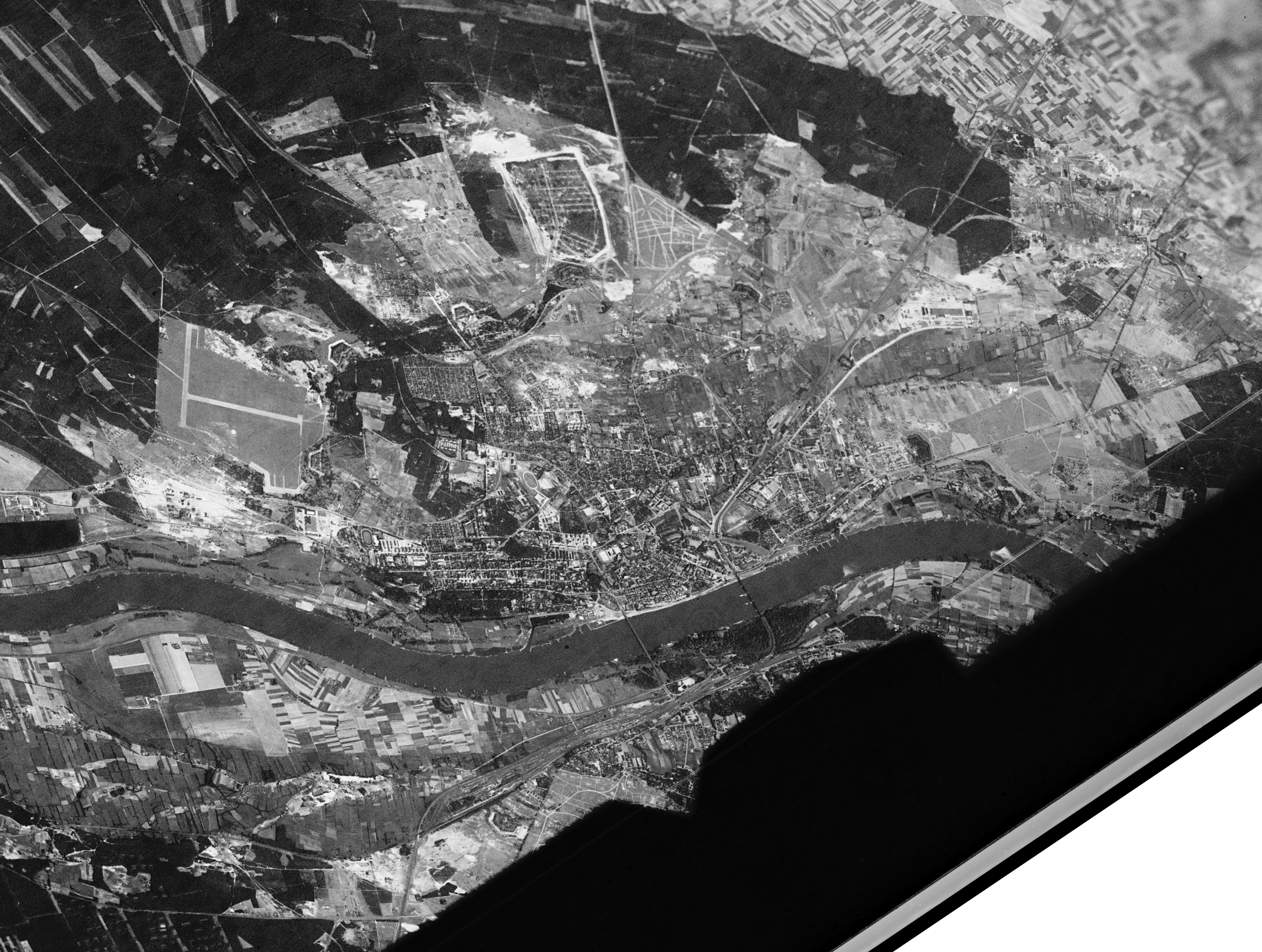 Toruń and its neighborhood seen by the Amercian reconnaissance satellite Corona 98 (KH-4A 1023) on 23rd of August 1965. This is one of the first satellite images of Toruń, at least American one.